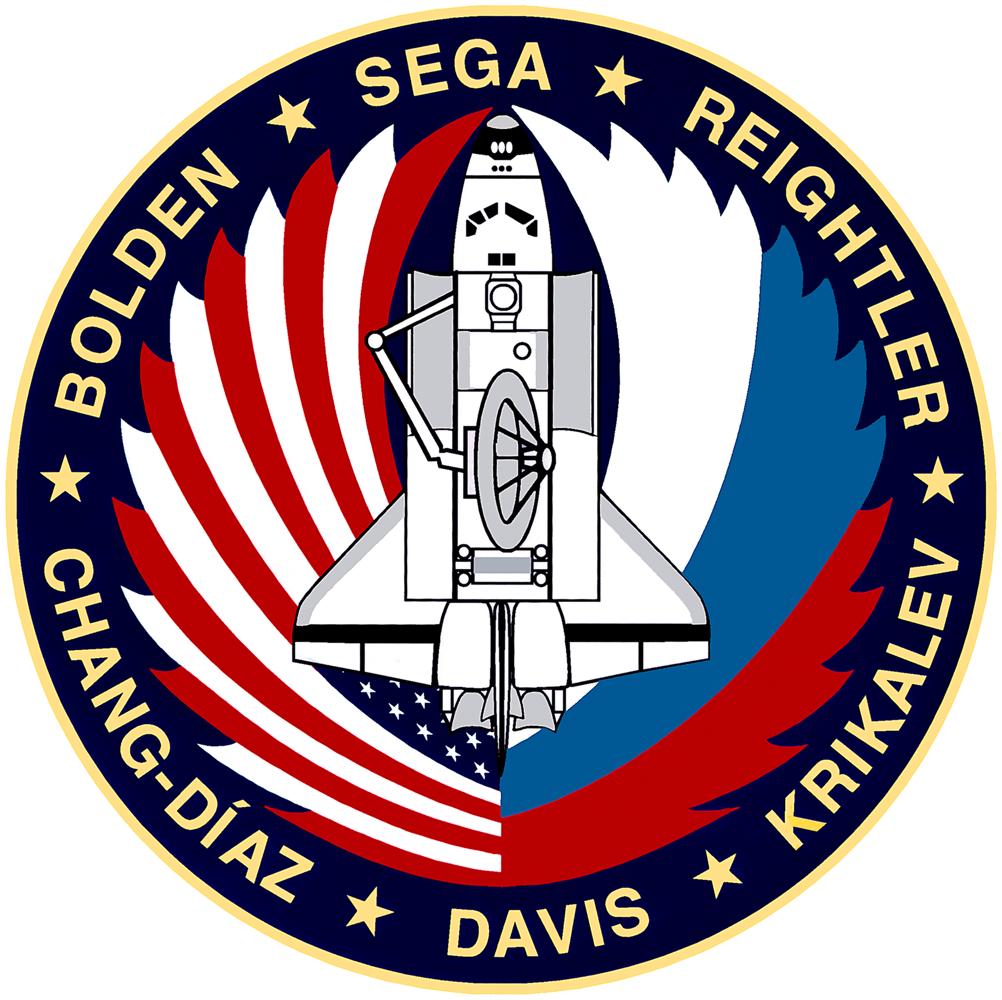 STS-60 crew patch The design of the crew patch for NASA's STS-60 mission depicts the Space Shuttle Discovery's on-orbit configuration. The American and Russian flags symbolize the partnership of the two countries and their crew members taking flight into space together for the first time. The open payload bay contains: the Space Habitation Module (Spacehab), a commercial space laboratory for life and material science experiments; and a Getaway Special Bridge Assembly in the aft section carrying various experiments, both deployable and attached. A scientific experiment to create and measure an ultra-vacuum environment and perform semiconductor material science – the Wake Shield Facility – is shown on the Remote Manipulator System (RMS) prior to deployment.